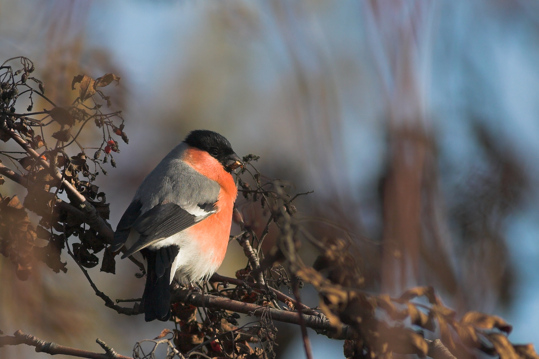 Pyrrhula pyrrhula (Bullfinch) eating berry in autumn morning. Photo by Thermos.